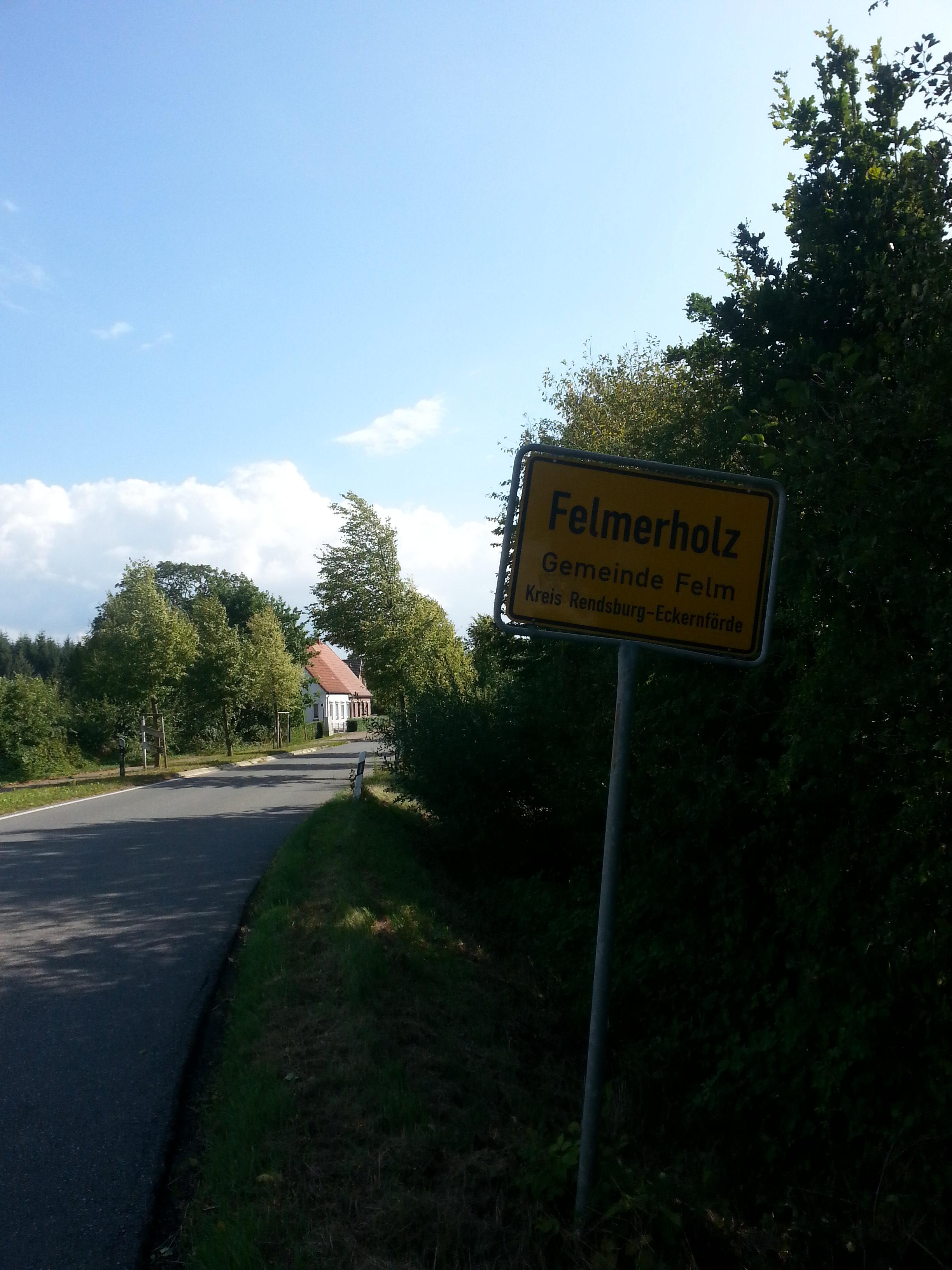 City limit sign "Felmerholz" in Felm